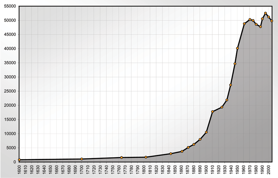 This image shows the population statistics for Heidenheim an der Brenz, Germany. The .xls source file is available upon request. Created by Tina Bach aka User:Mmounties Date 2006-03-15